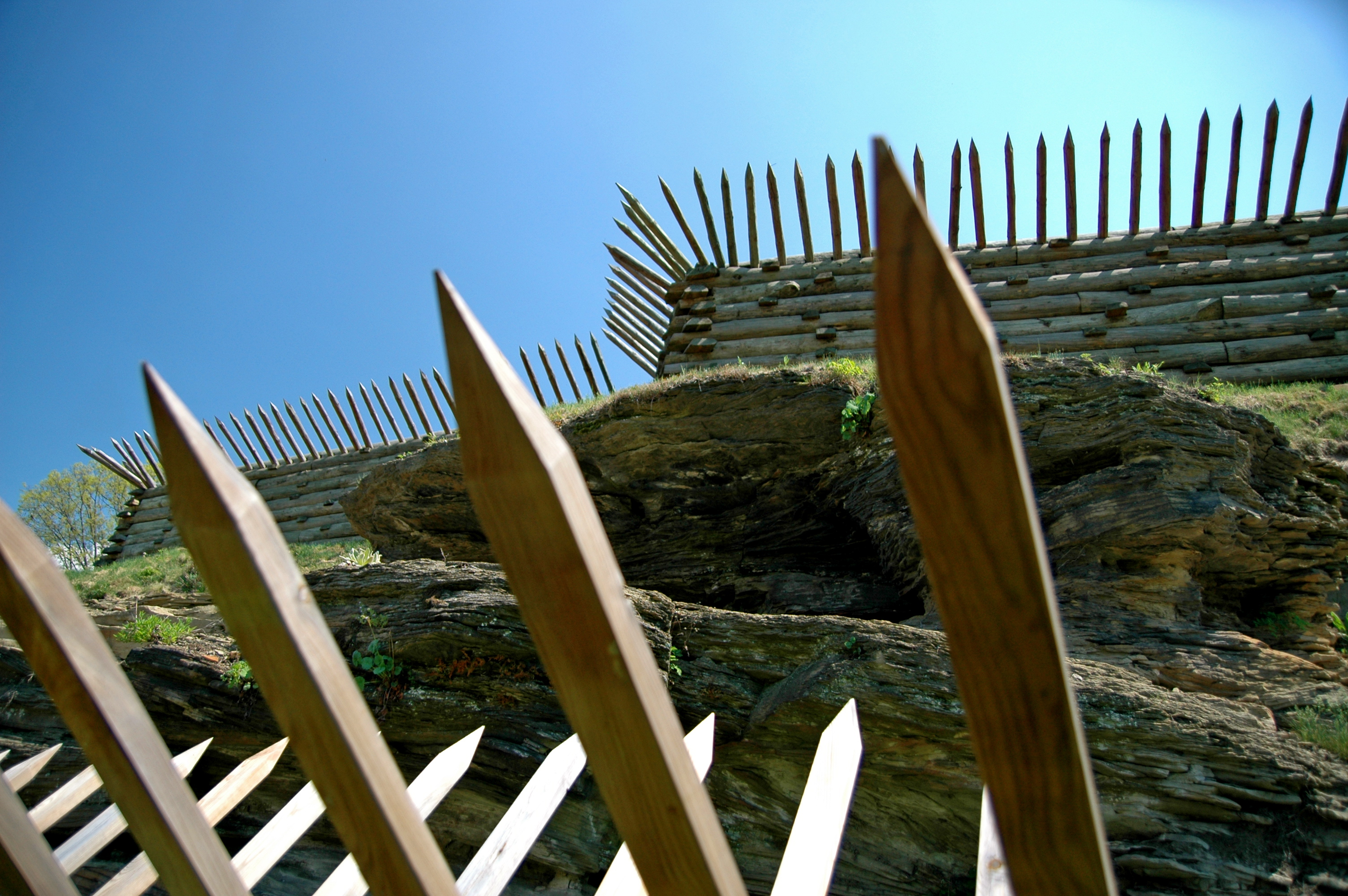 "Friesian Horses" are portable wooden obstacles with sharpened fraises, sometimes shod with iron, used to block entrances or to close breaches (gaps) in the fort wall.